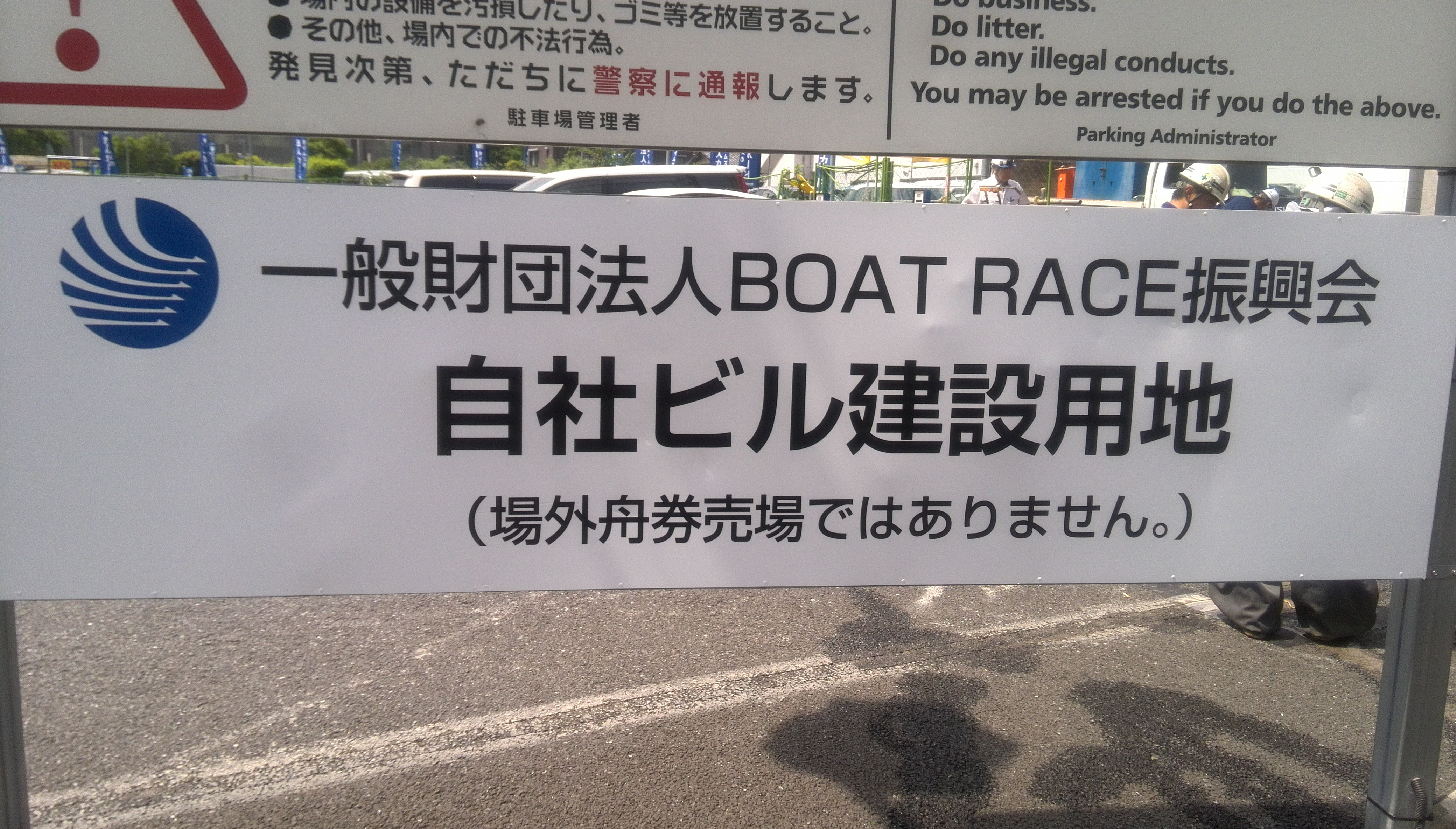 BOAT RACE building in Roppongi 六本木で、一般財団法人BOAT RACE振興会の「自社ビル建設用地」看板。